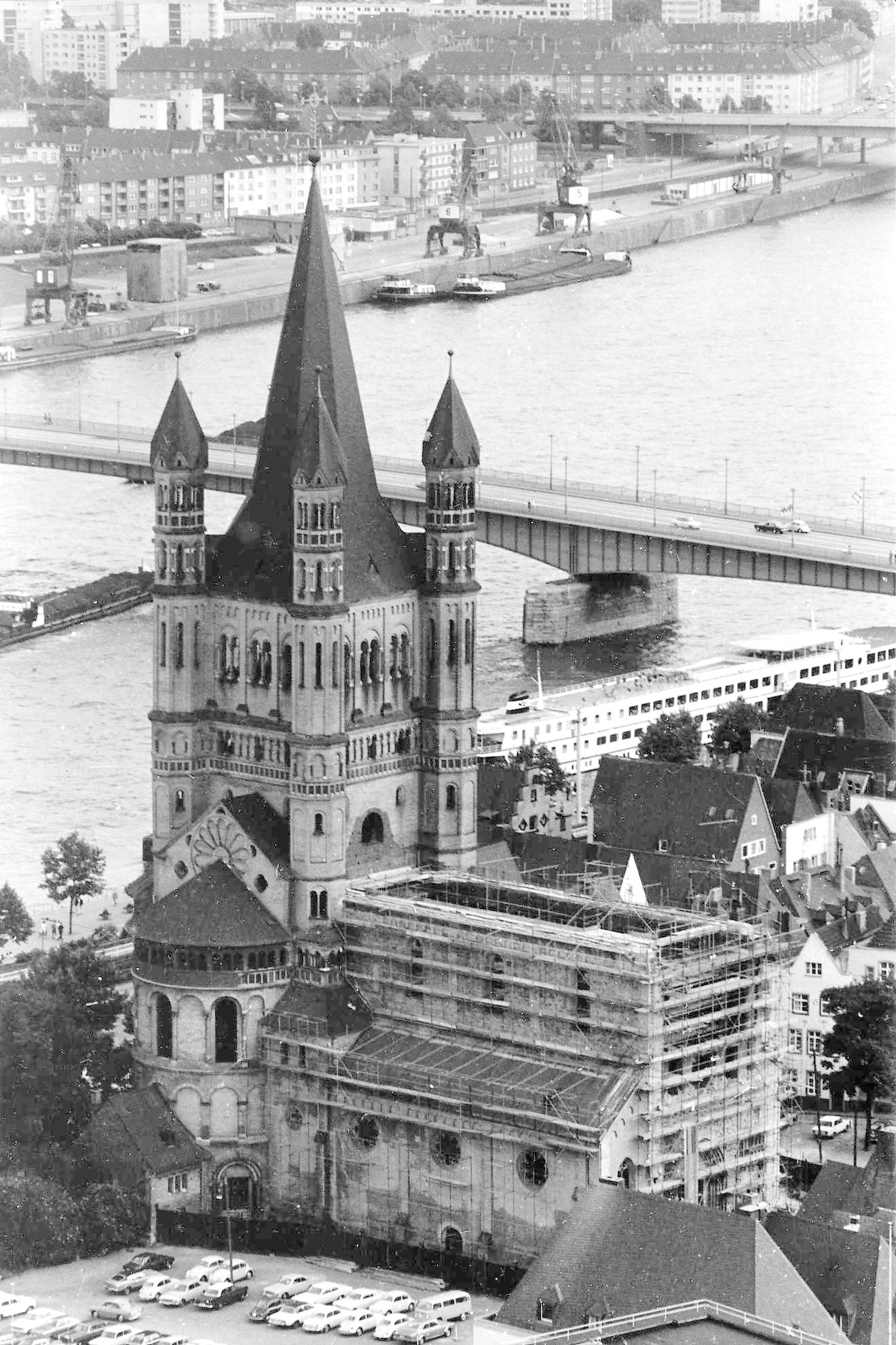 The roman church "Groß Sankt Martin" (the second biggest church in the City of Cologne/Germany) during the reconstruction of the nave. Photography 1971 from the spire of the cologne cathedral.